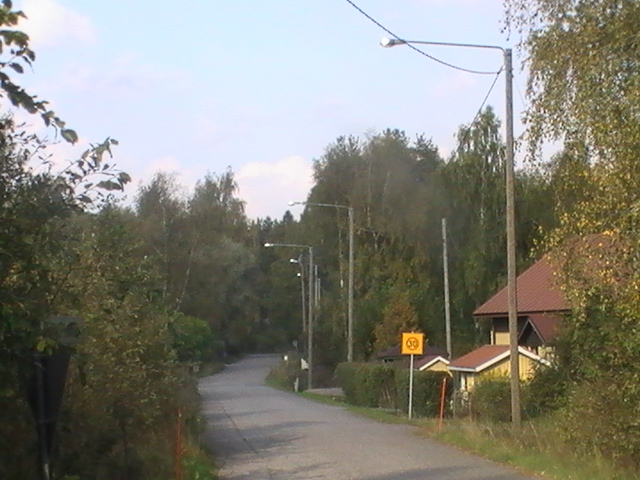 The village of Tervasmäki at Nakkila, Finland. The photo was taken at the crossroad of Tervasmäentie and Ruskilantie.